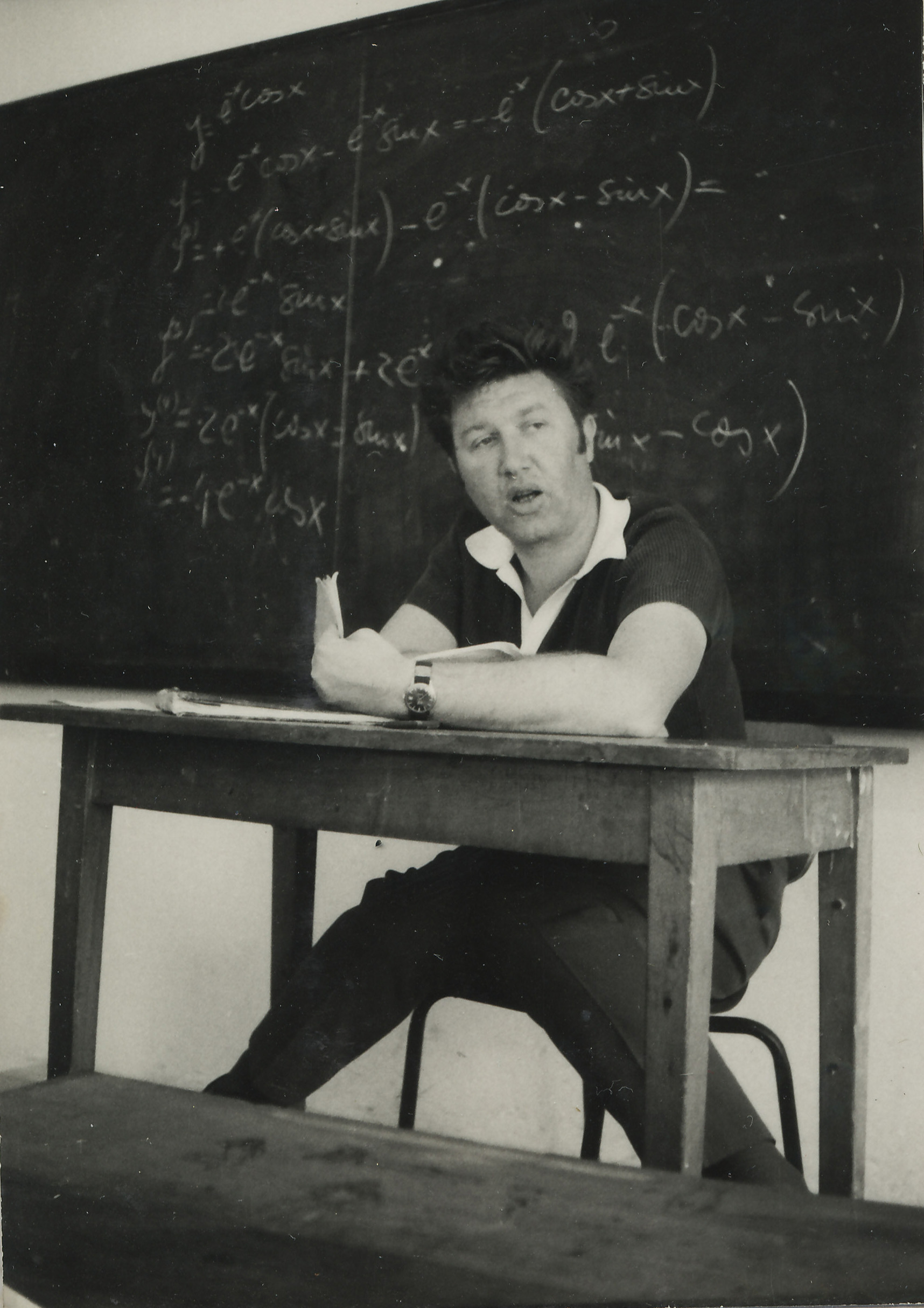 Our Mathematics Teacher: Hary Herscovici, Bosmat 1970